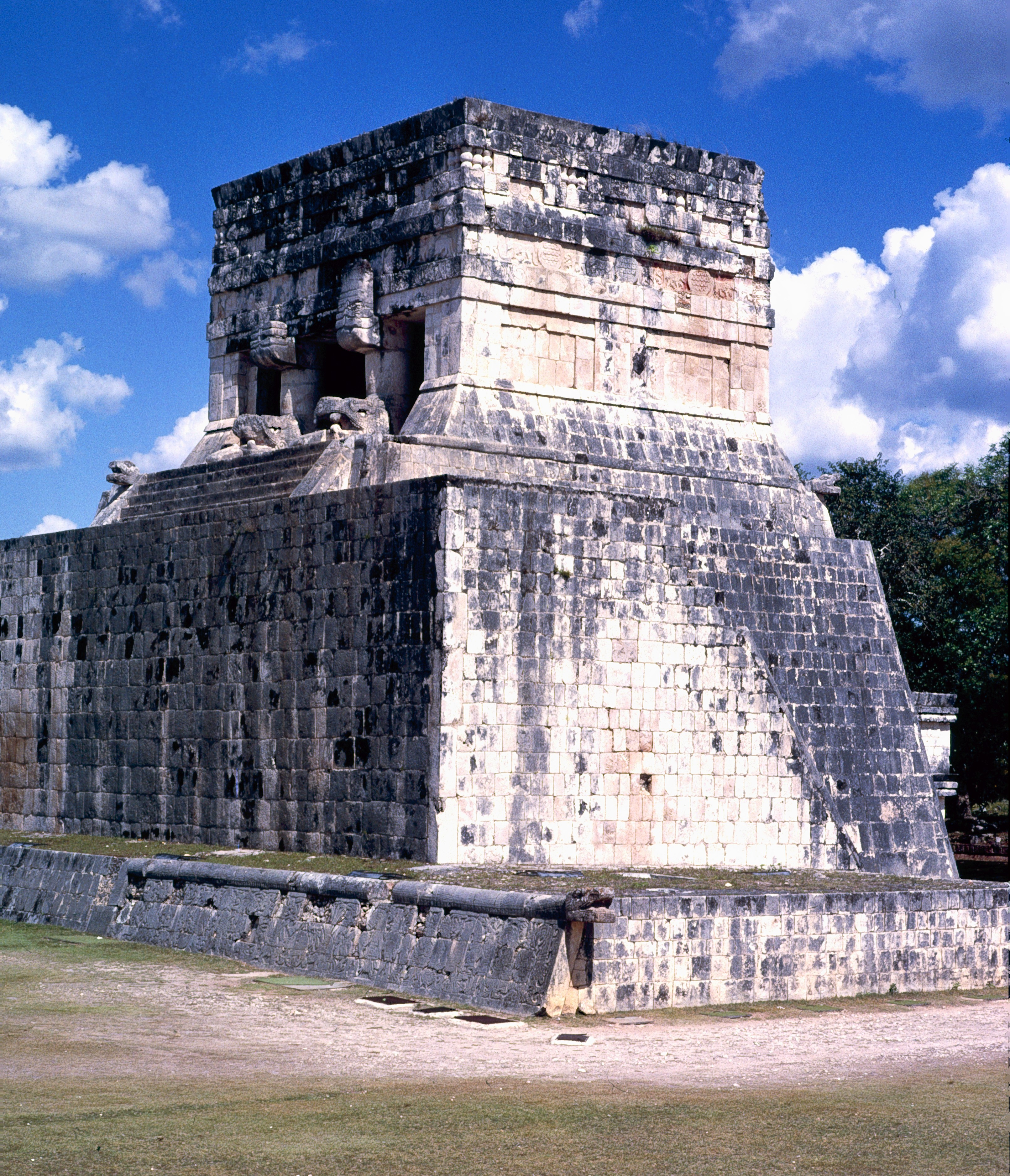 Chichen Itza,Yucatan, Mexico: Temple of the jaguars